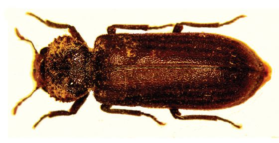 Apoleon edax, dorsal view.